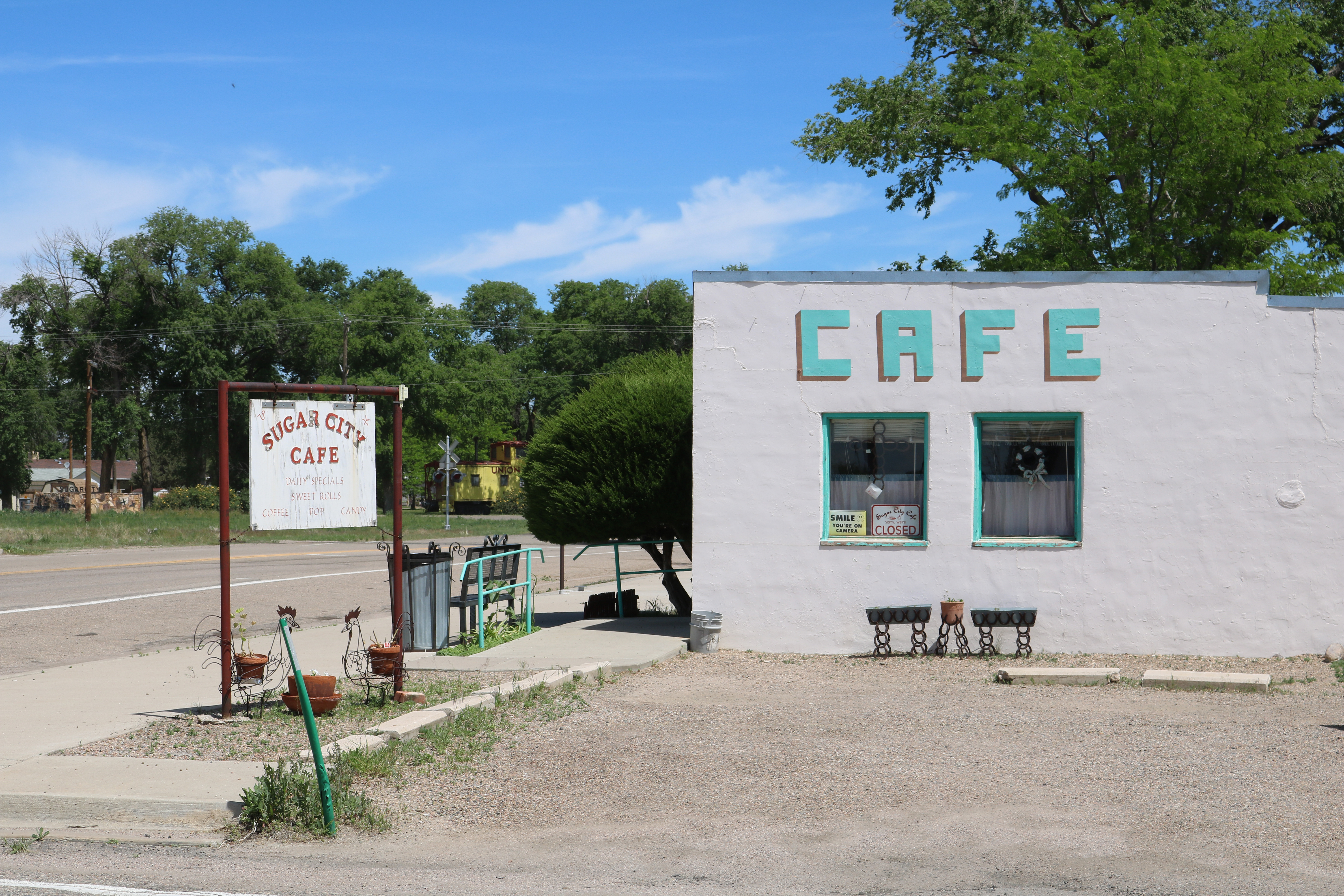 A view of the town of Sugar City, Colorado. The view includes a shuttered cafe on Colorado Street, just north of Adams Street. In the distance, an old caboose can be seen in Sugar City's park.